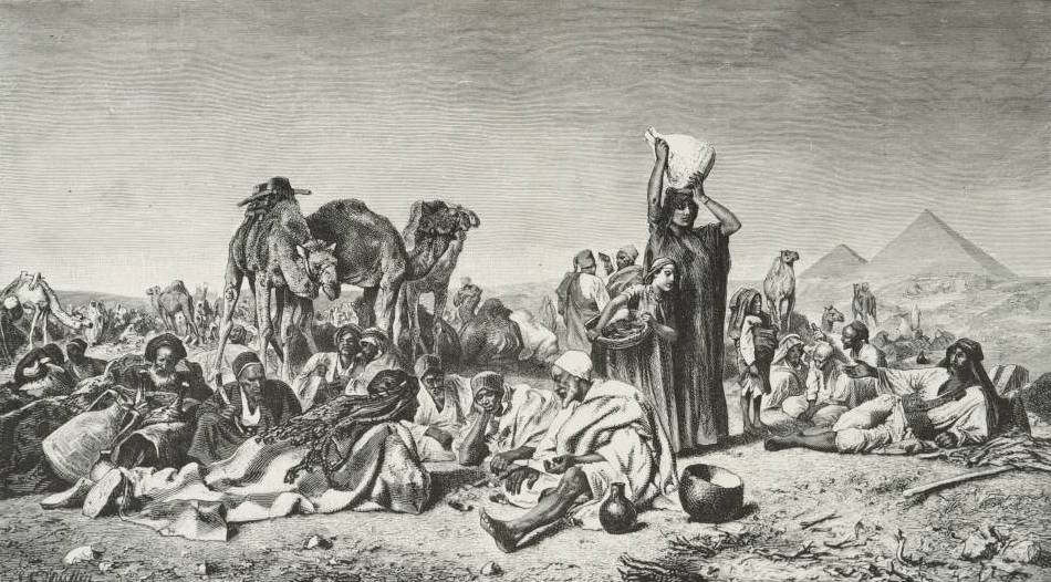 A Bedaween camp in the desert, with men resting and women carrying water.